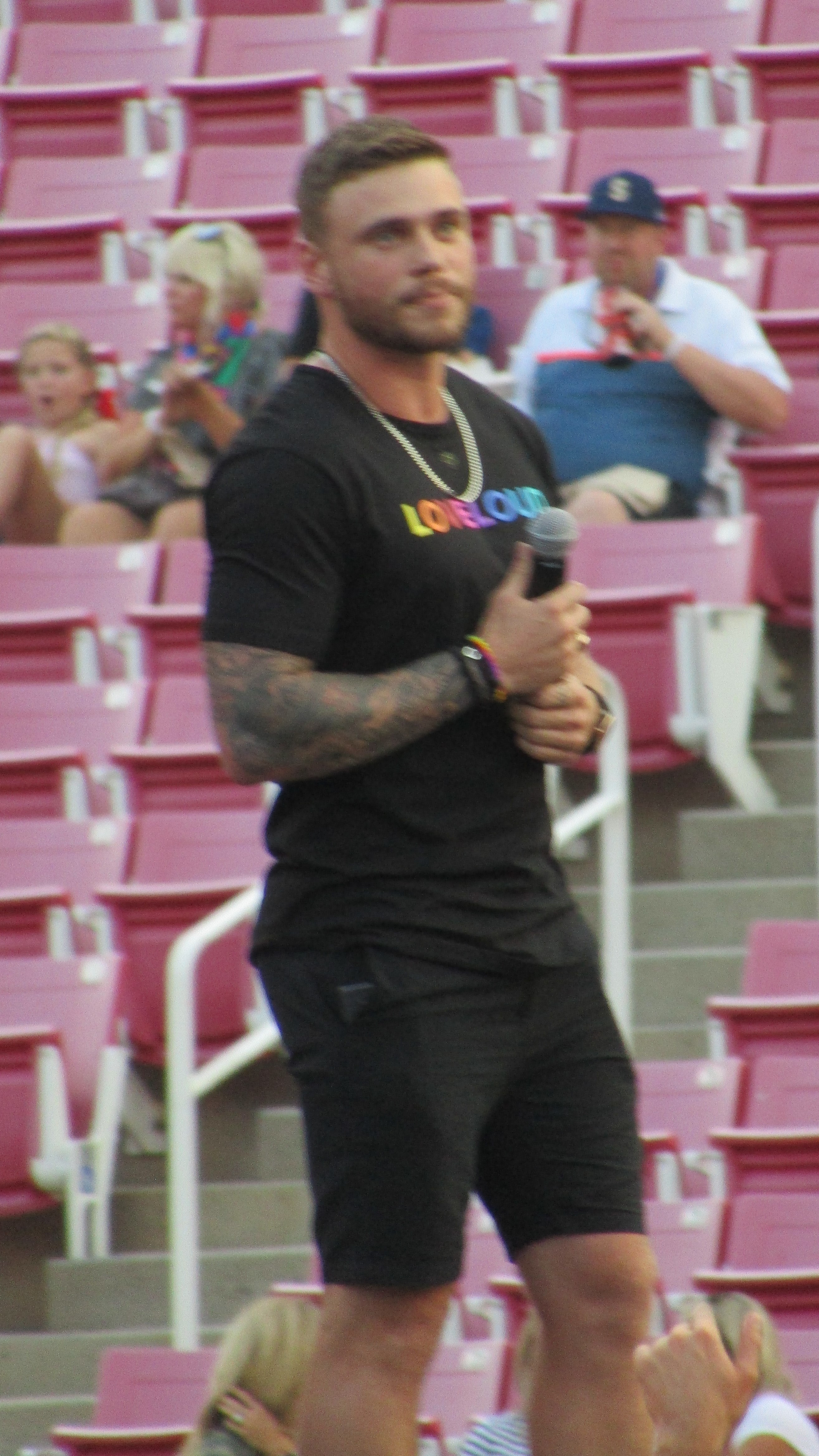 Gus Kenworthy performing at LoveLoud 2018.